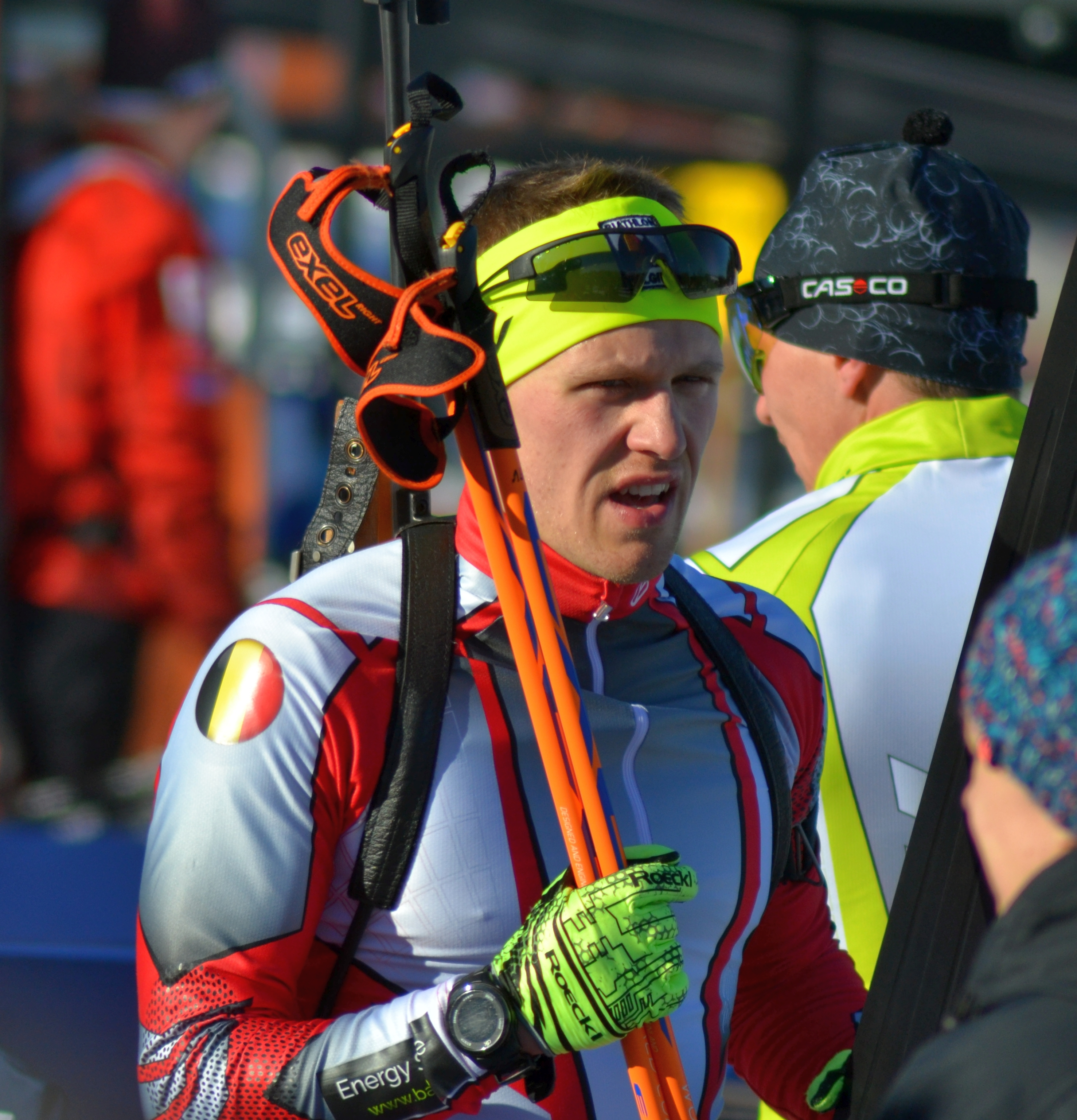 Open European Championships Biathlon 2017, Sprint Men's race, held on January 27th.